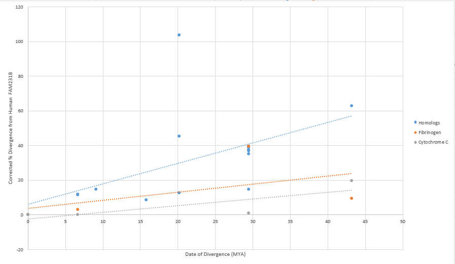 A evolutionary graph comparing FAM231B and the orthologs to the fibrinogen and cytochrome C proteins